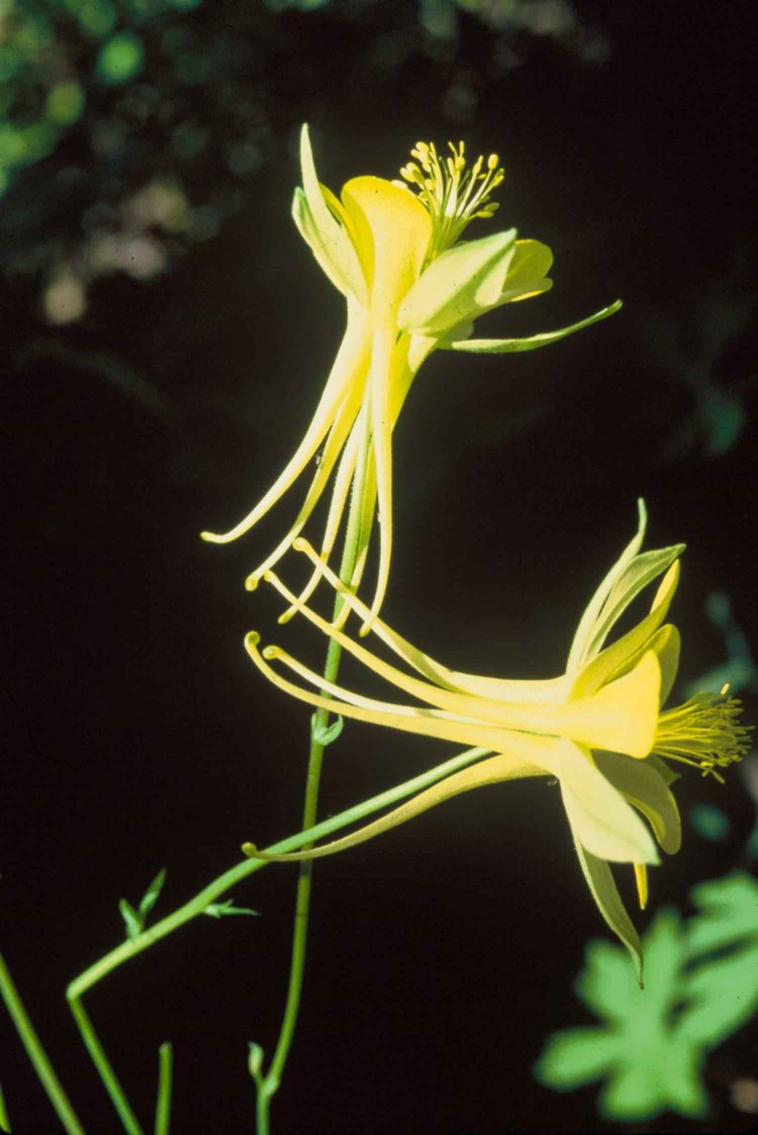 Image title: Yellow columbine flowers aquilegia flavescens Image from Public domain images website